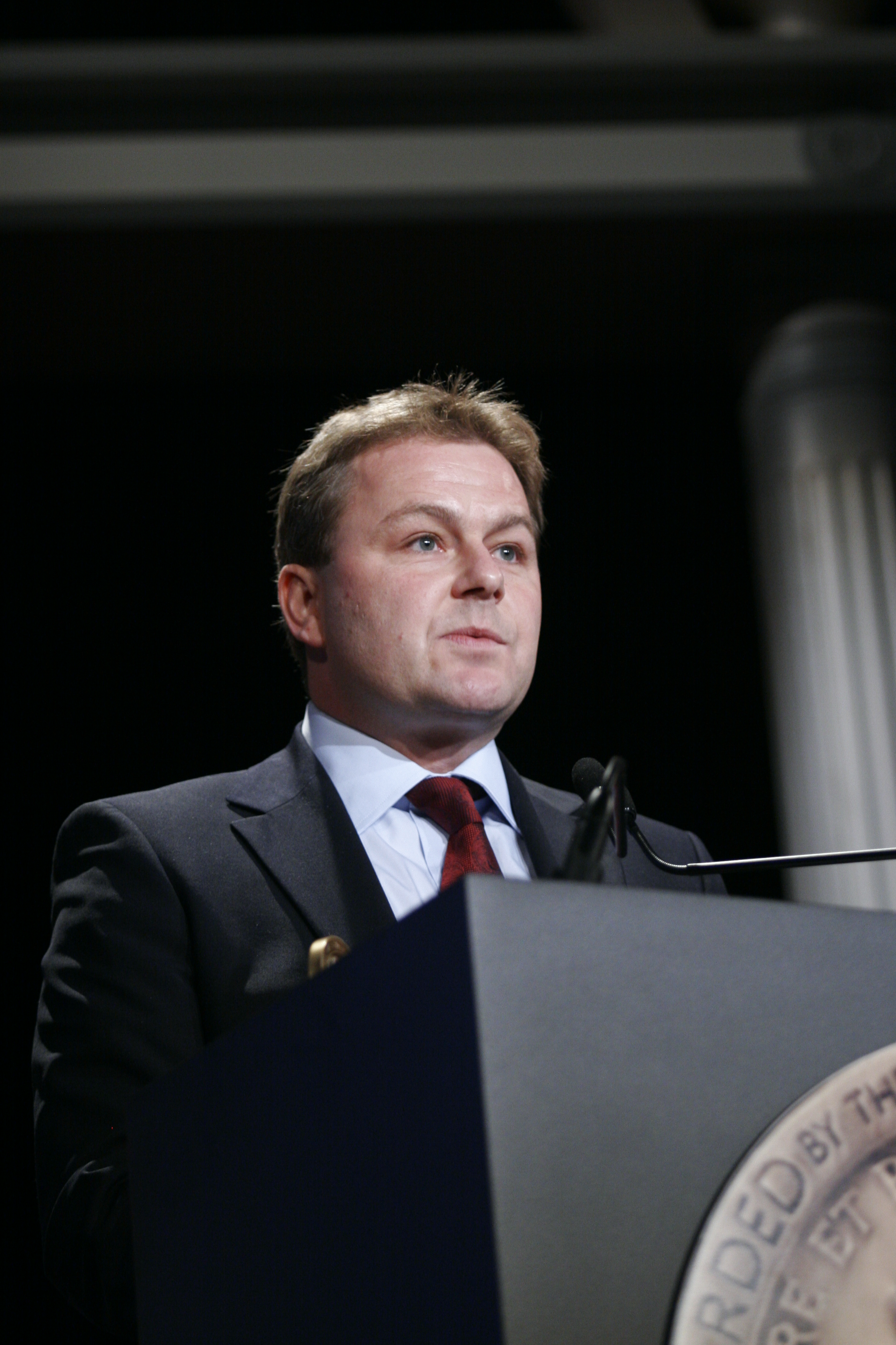 Patrick Morris, 66th Annual Peabody Awards Luncheon Waldorf=Astoria Hotel New York, NY USA June 4, 2007